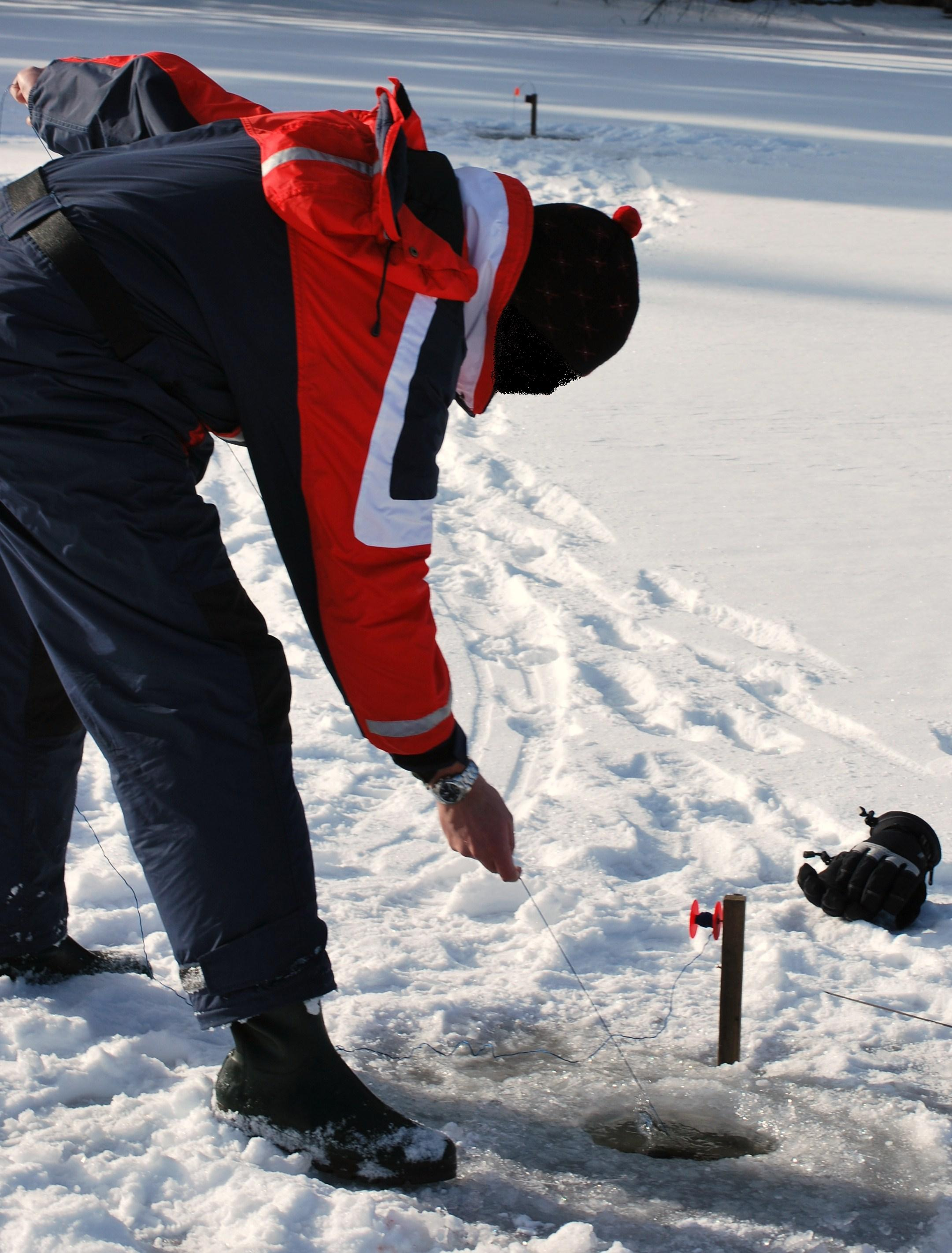 A swedish fisher, on his way to catch a pike by the method "angling"